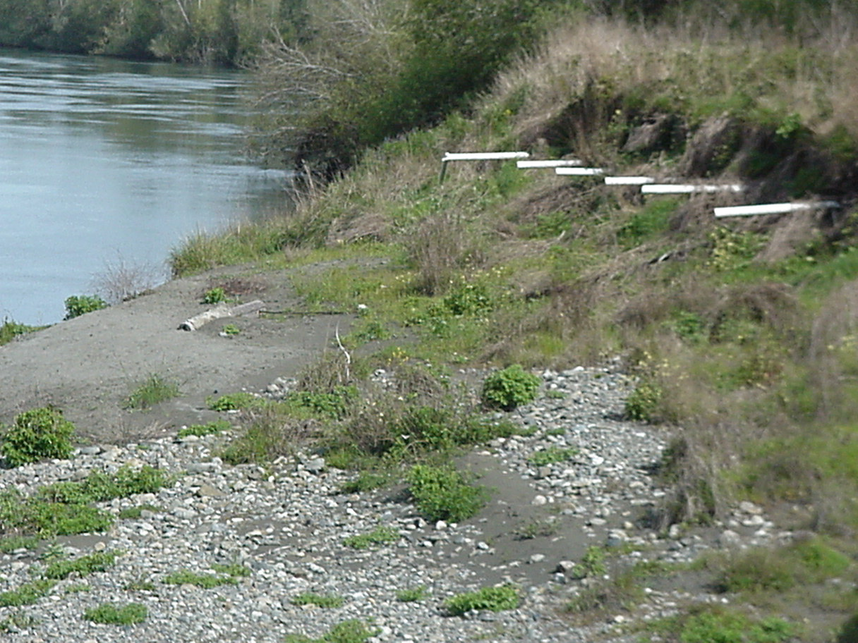 Cross-section of septic tank leach field eroded by course change of the Klamath River at Klamath, California